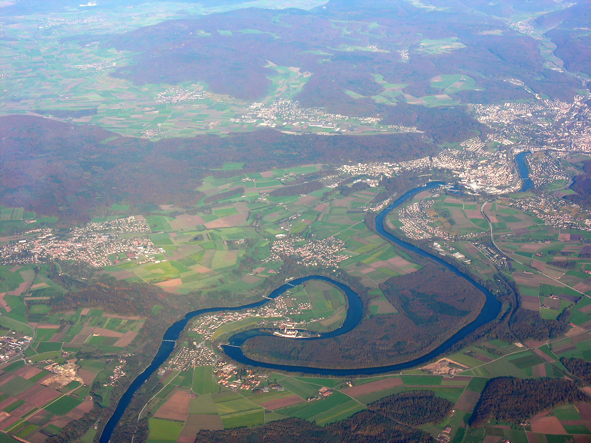 Switzerland, Canton of Zürich, the slopes of the Rhine in Rheinau with Schaffhausen in the background. In the center above is Altenburg and Jestetten to its left (both in Germany). The upper part shows Siblingen, Löhningen, Beringen, Neuhausen and Schaffhausen (all in the canton of Schaffhausen, Switzerland).